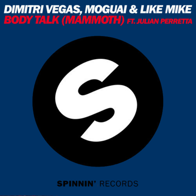 Similar to the official cover of "Body Talk" by Dimitri Vegas & Like Mike